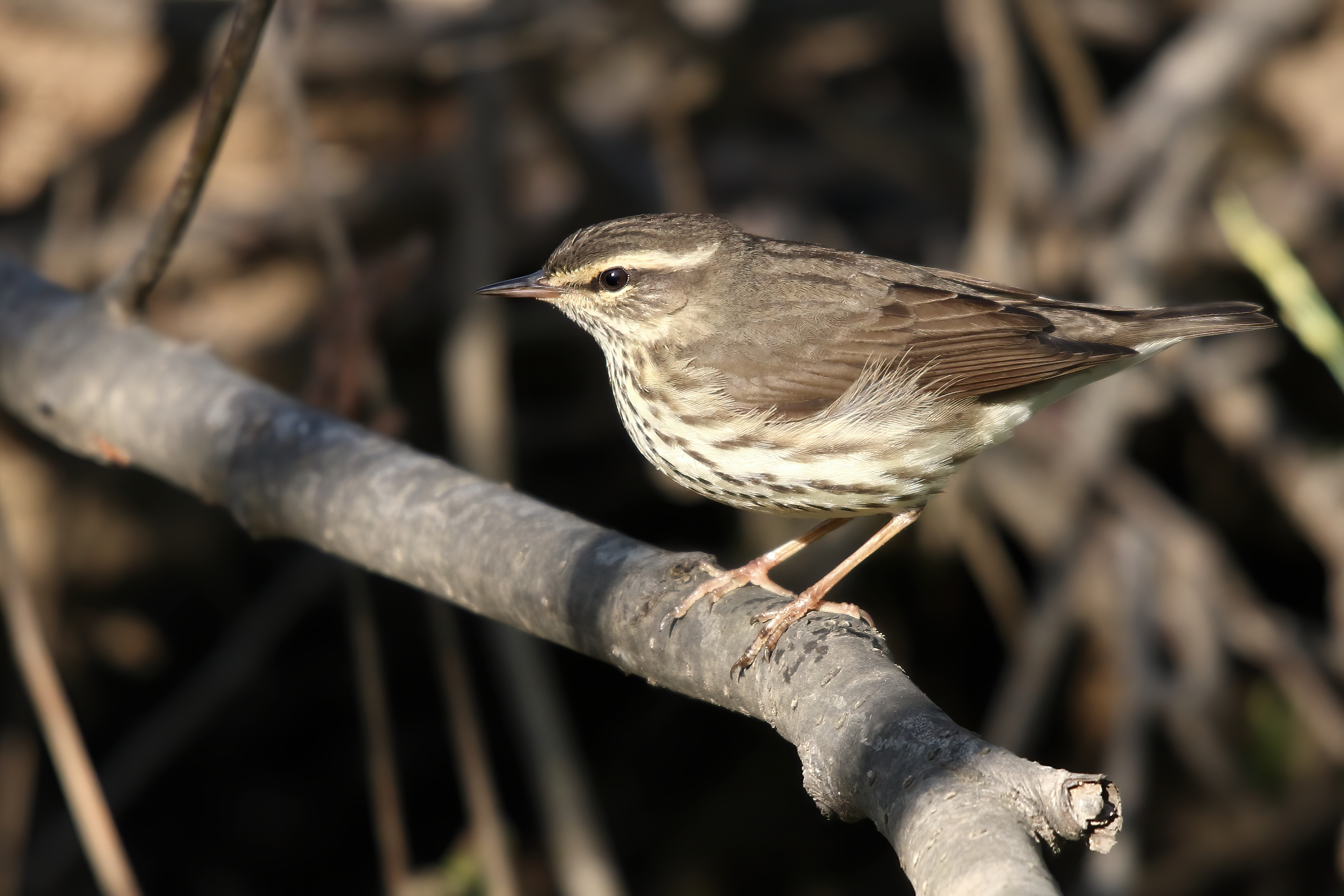 Northern Waterthrush, Réserve naturelle des Marais-du-Nord, Quebec, Canada.